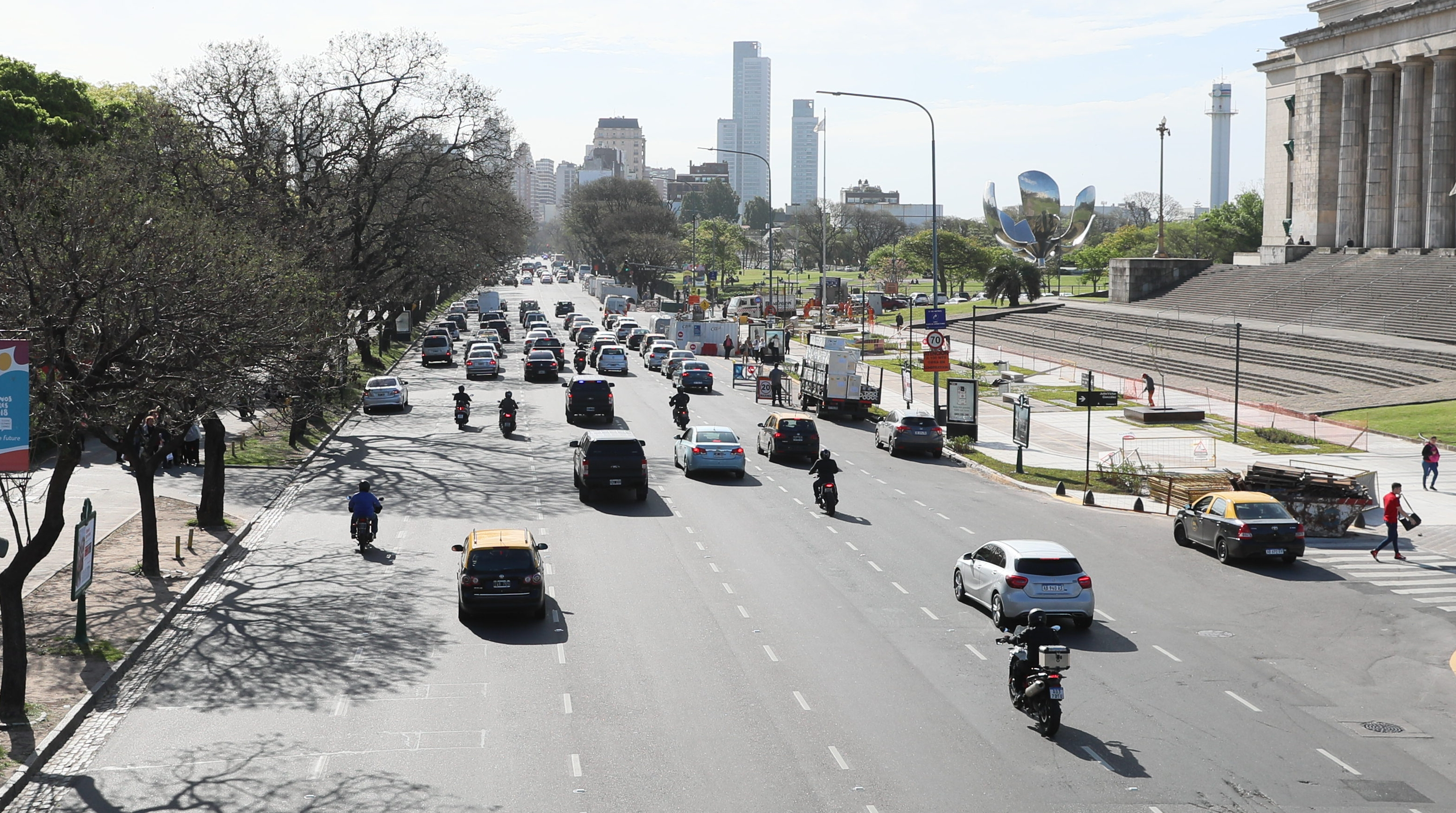 Sightseeing in Buenos Aires